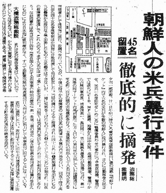 Mainichi Shimbun newspaper clipping (22 March 1951 issue)